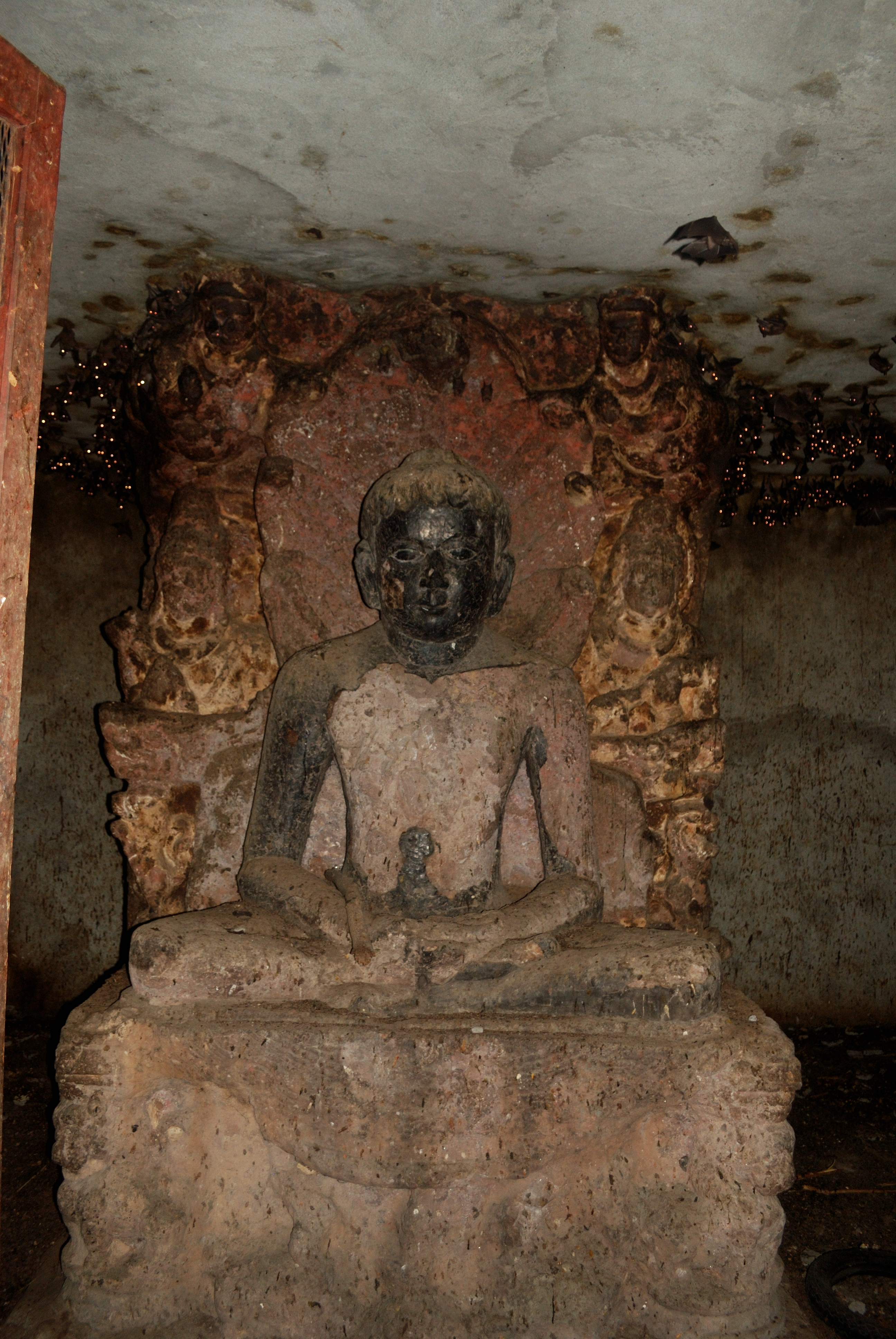 Dharashiva Leni: Cave temples west of Osmanabad, Maharashtra, India